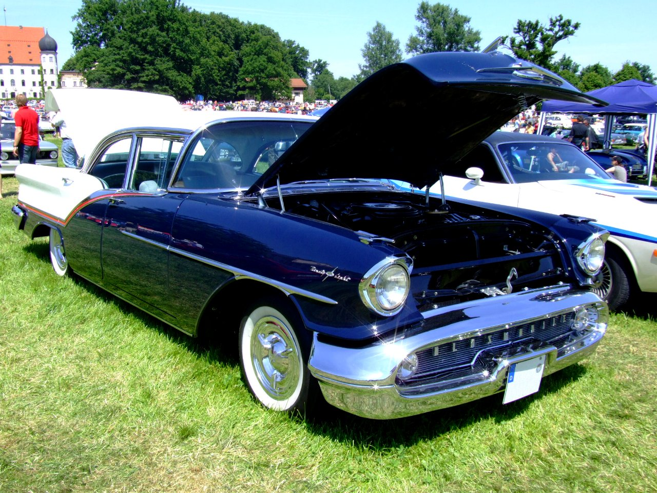 Oldsmobile NinetyEight 1957